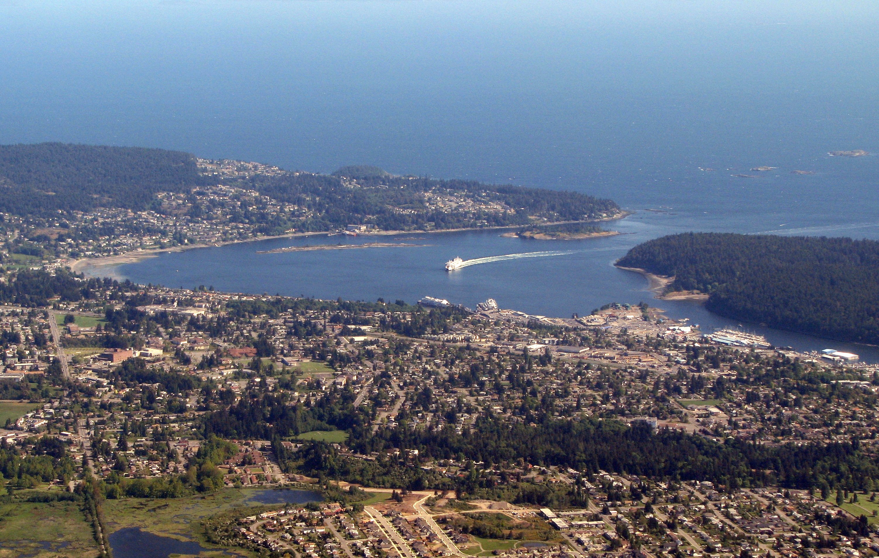 Departure Bay in Nanaimo BC showing BC Ferry Terminal and Newcastle Island